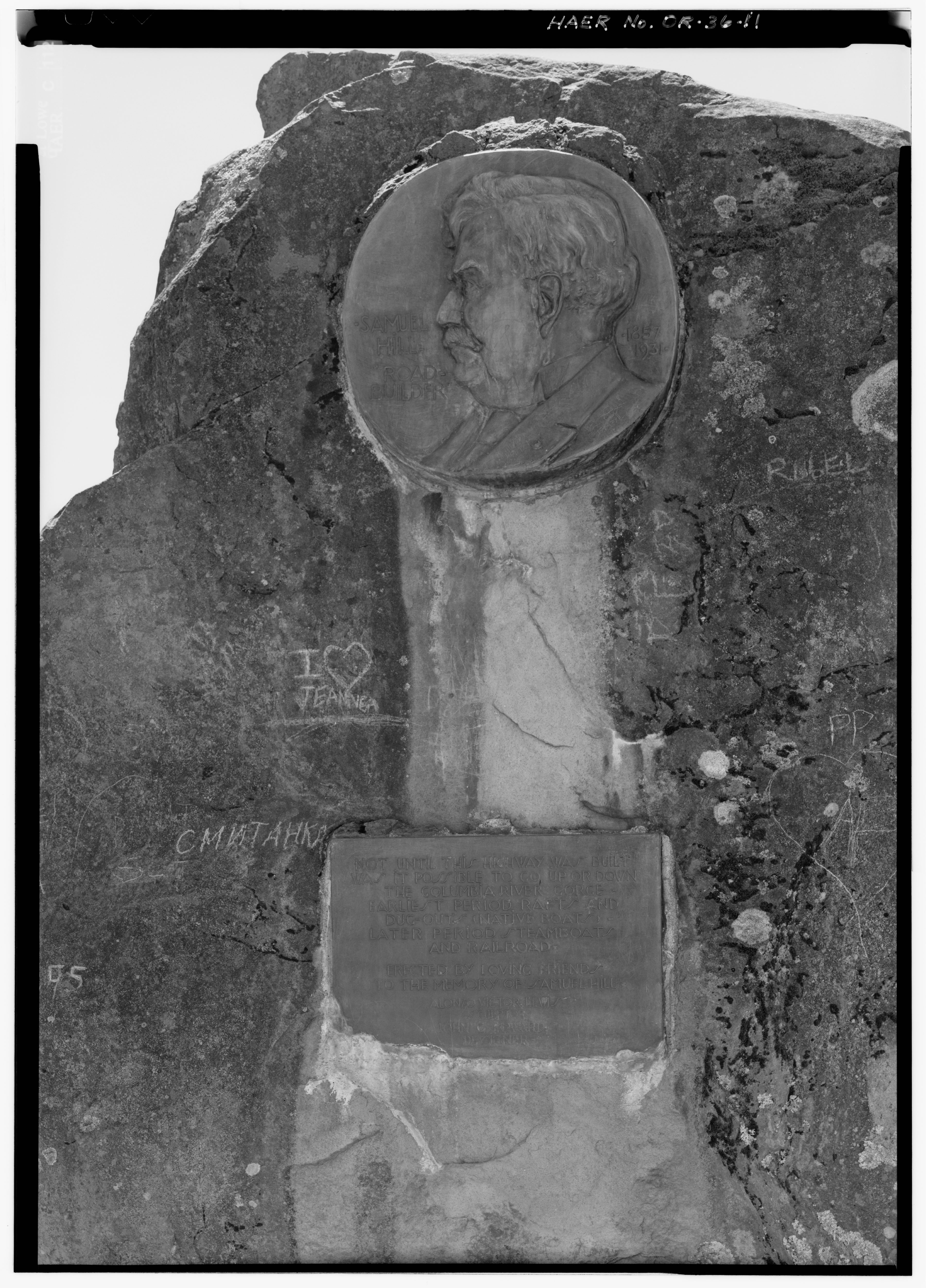 DETAIL OF SAM HILL MEMORIAL ROCK AT CHANTICLEER POINT, VIEW LOOKING SOUTH AT SAM HILL PLAQUE.